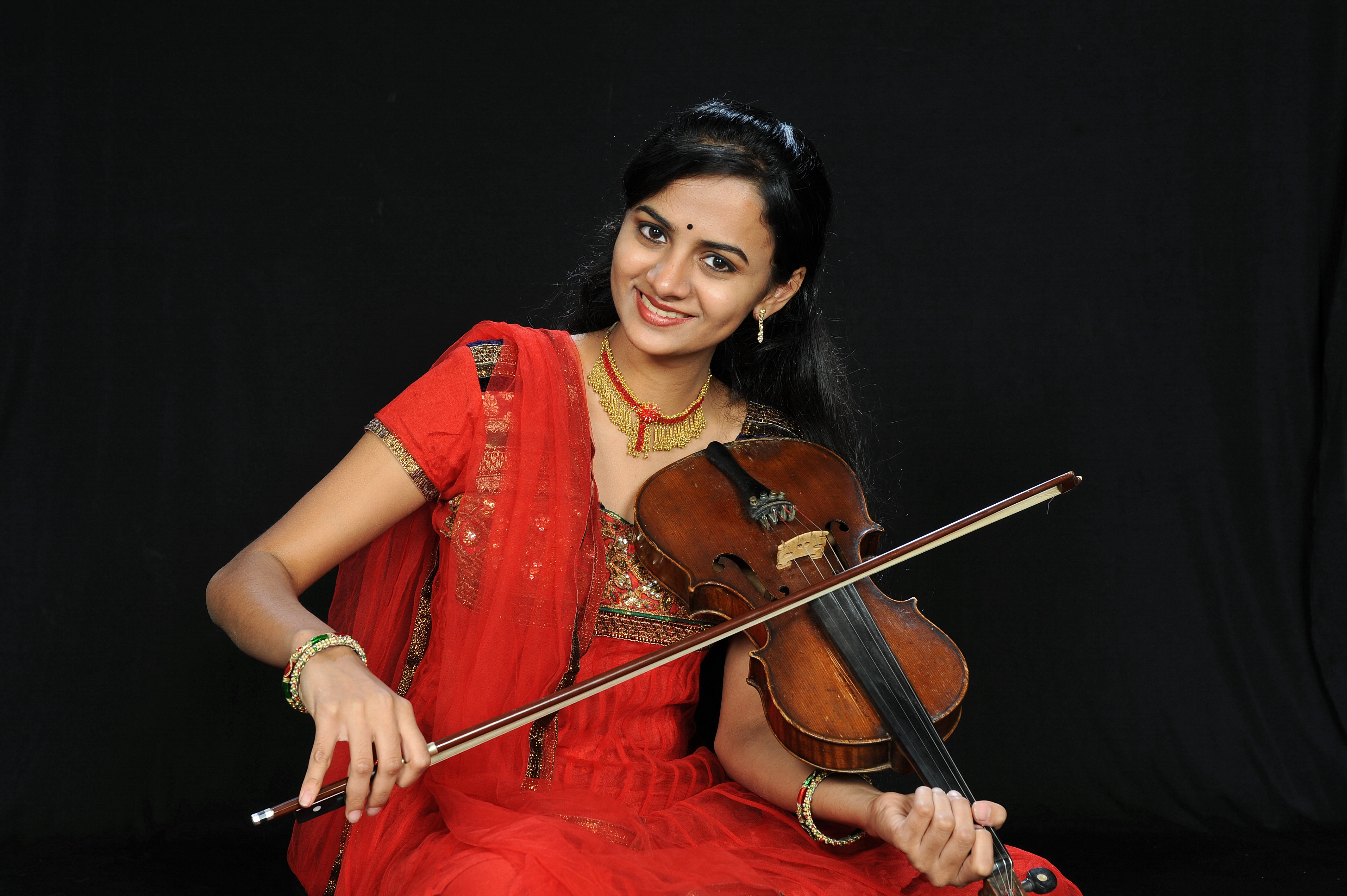 Nandini Shankar (violinist)